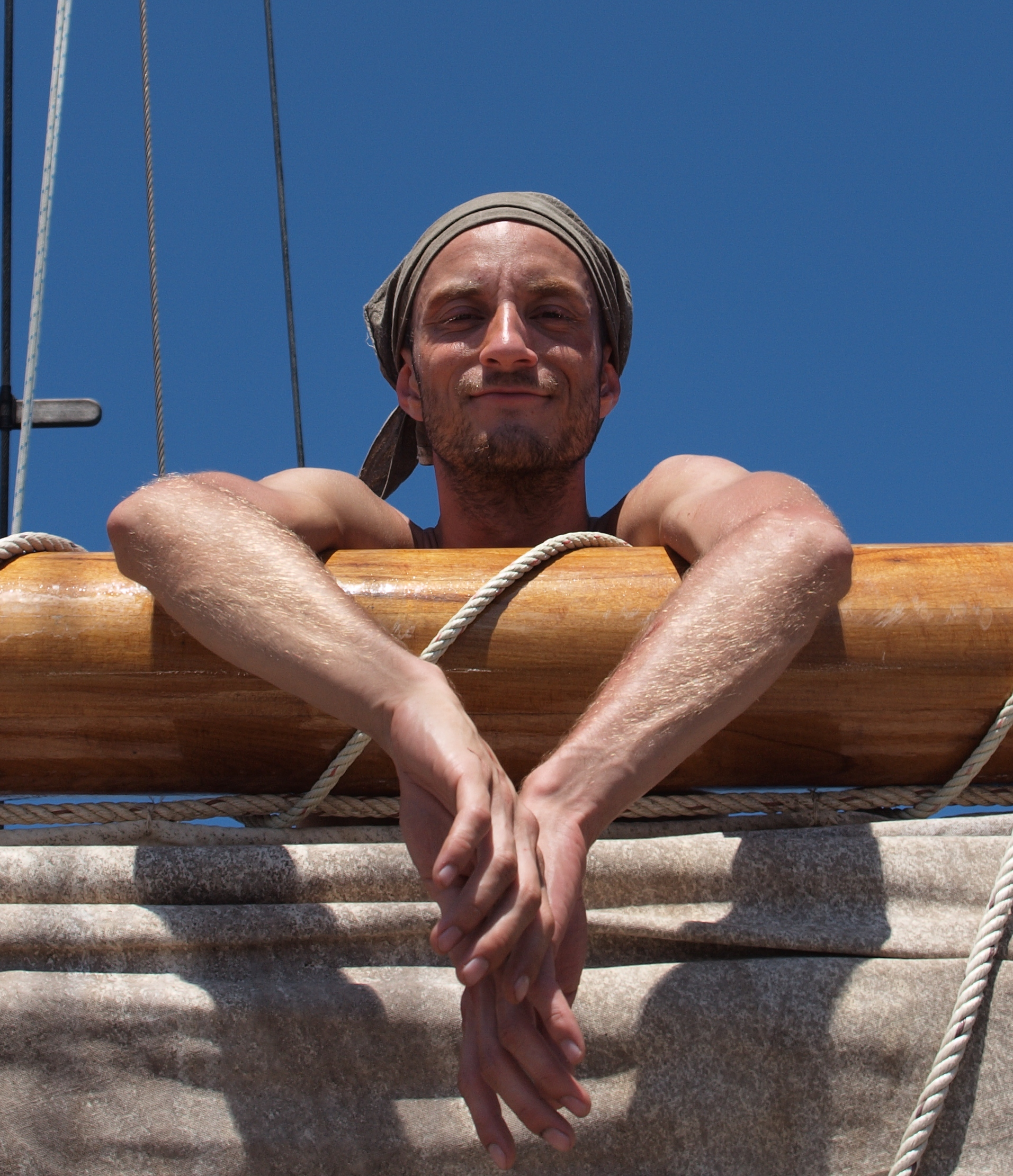 Jonas Müller-Liljeström on set of "Emden Men" 2011